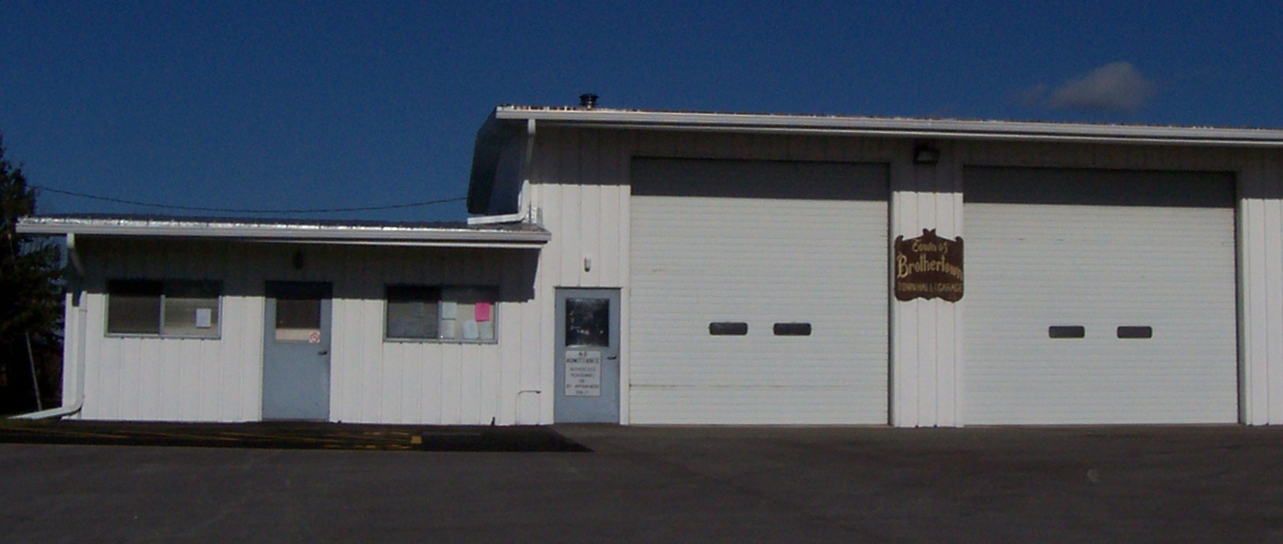 Looking north at the town hall for the township of Brothertown, Wisconsin, USA in Calumet County, Wisconsin.